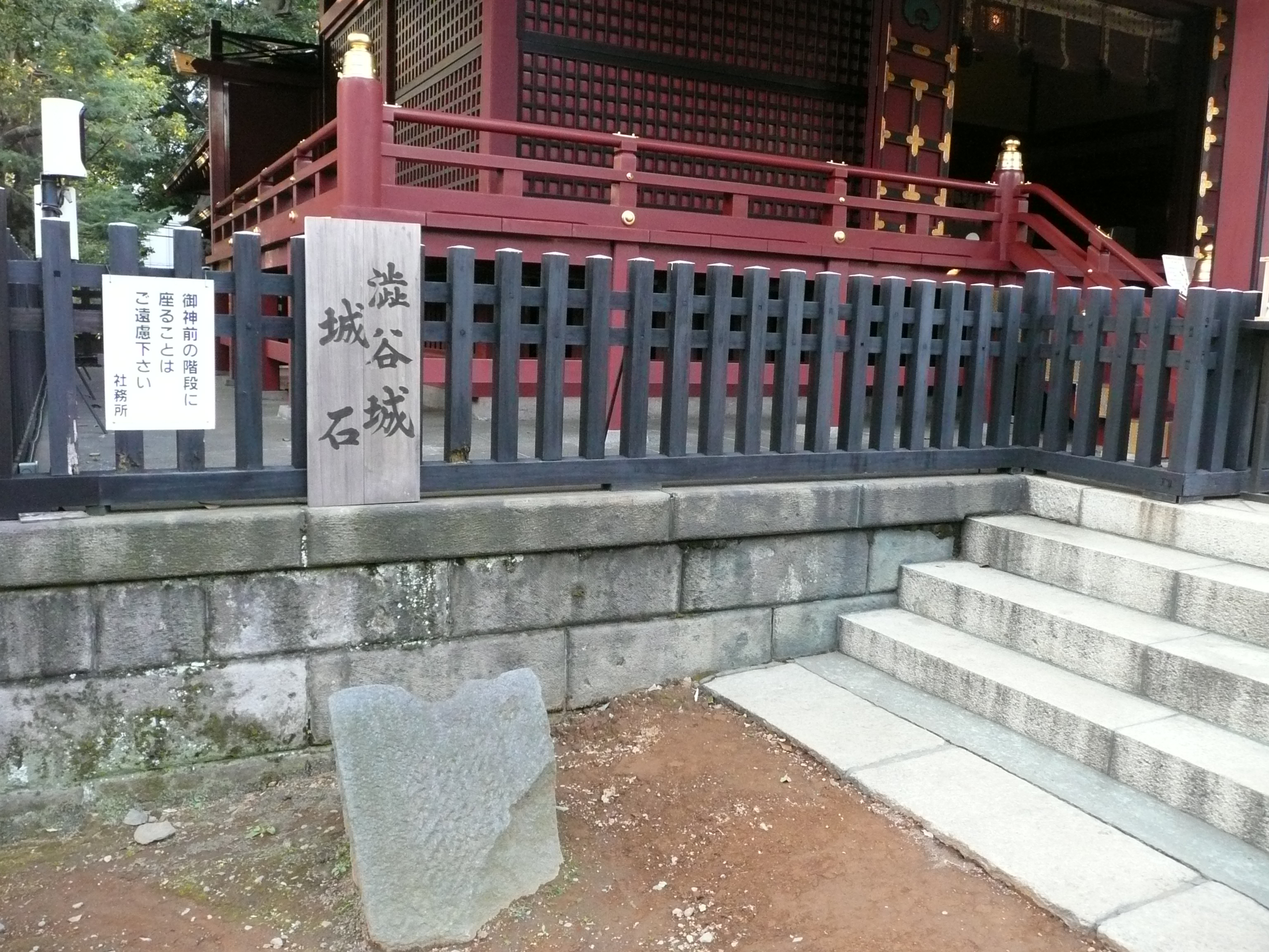 渋谷城の石垣の一部